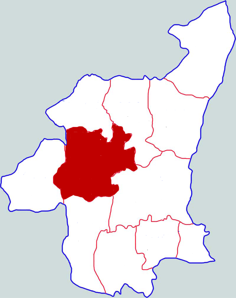 Location of Pucheng county in Weinan city, China